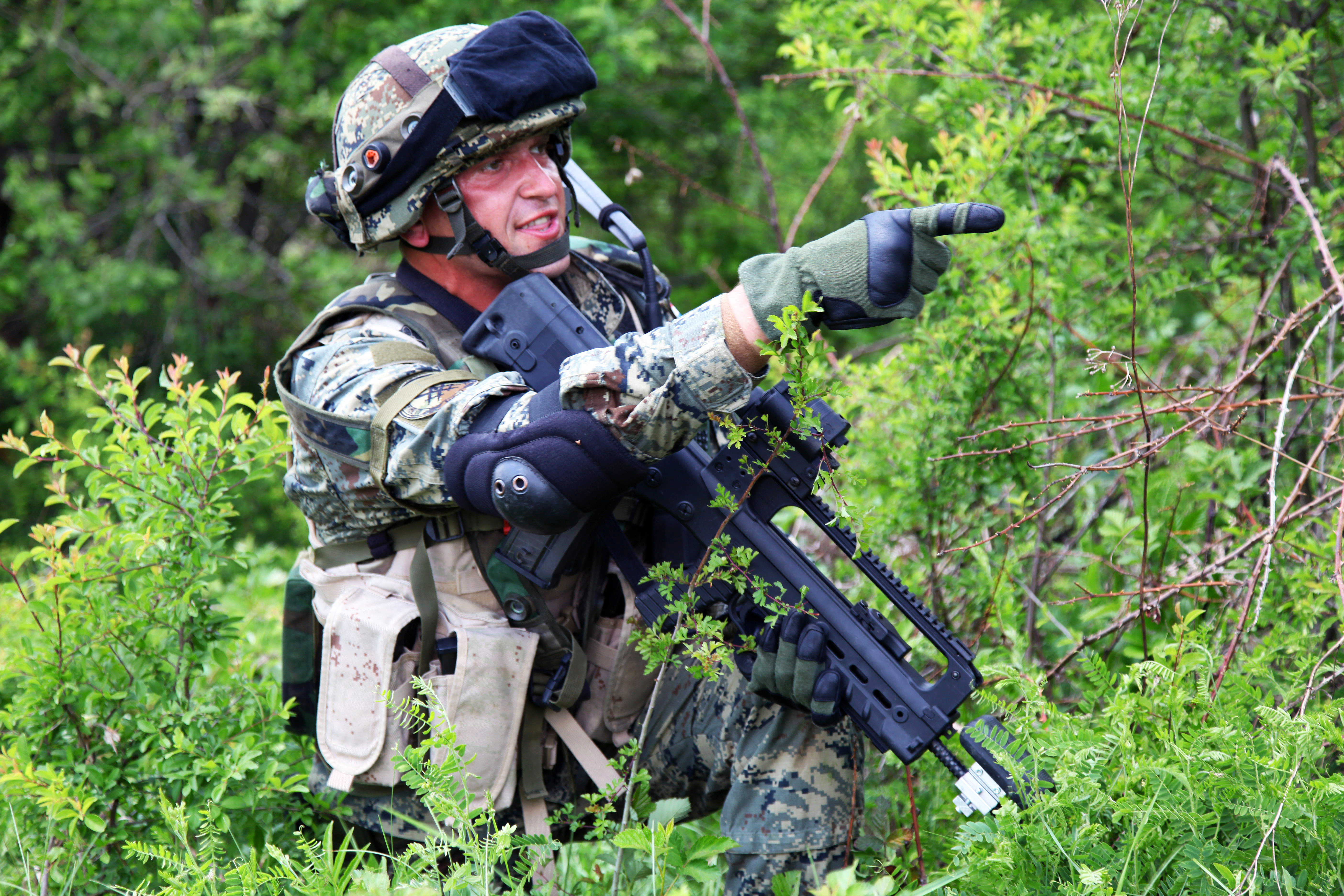 A Croatian soldier gives direction after encountering contact from the opposing force as they conduct a movement to contact exercise during the Immediate Response 2012 training event in Slunj, Croatia, May 29, 2012.